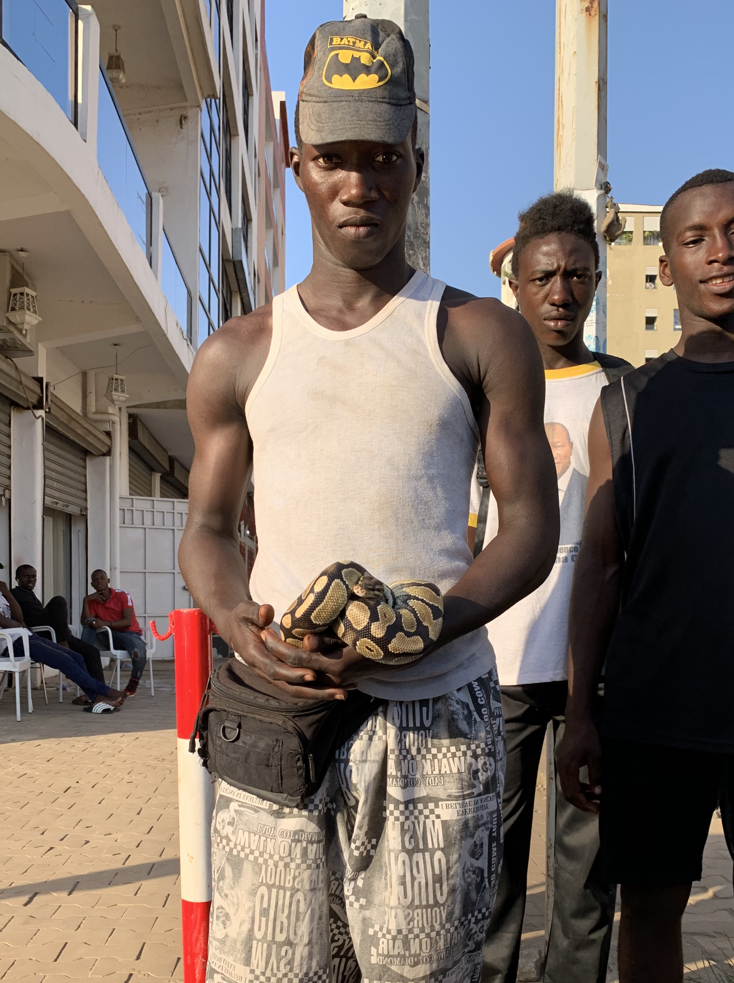 This is an image with the theme "Africa on the Move or Transport" from: Guinea